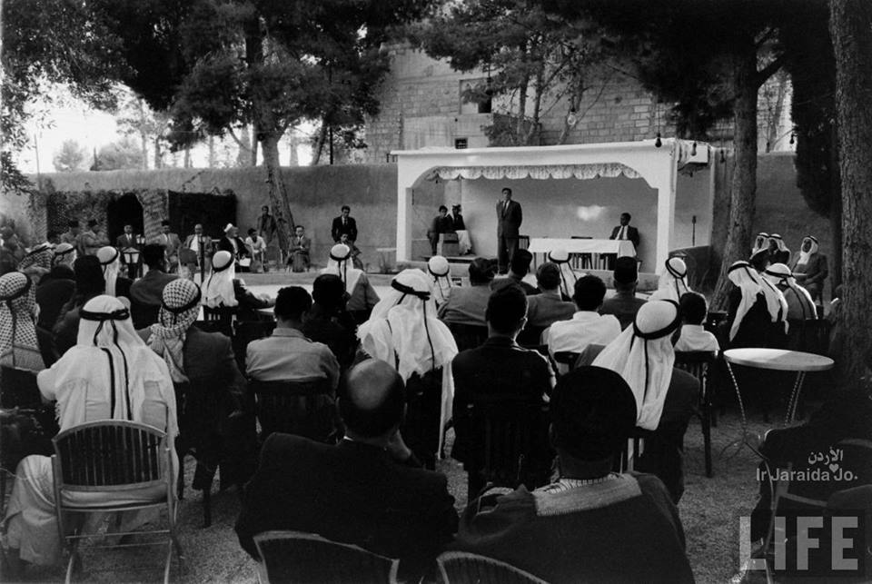 1956 Jordanian general election campaig